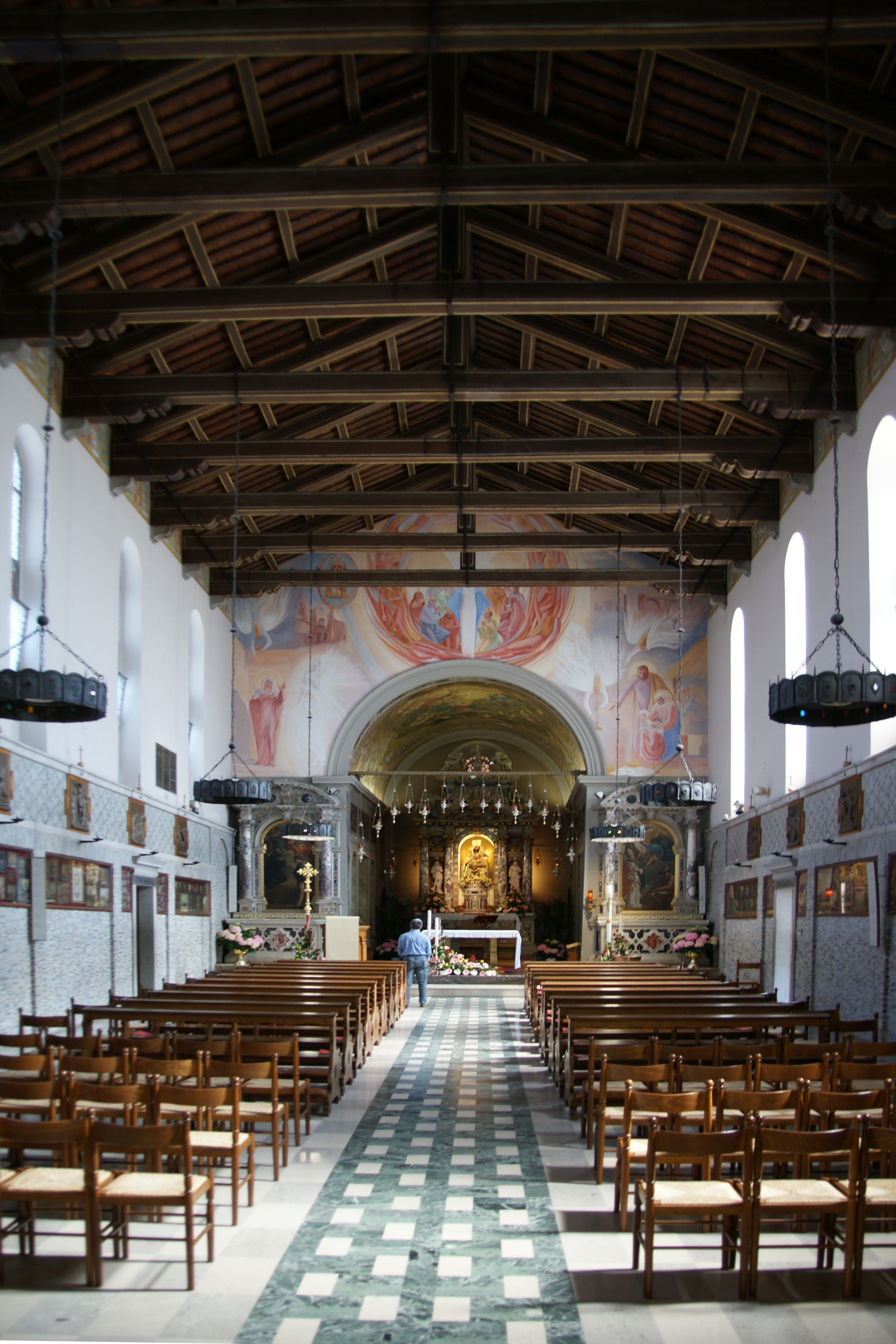 Castelmonte near Cividale del Friuli, Friuli-Venezia Giulia